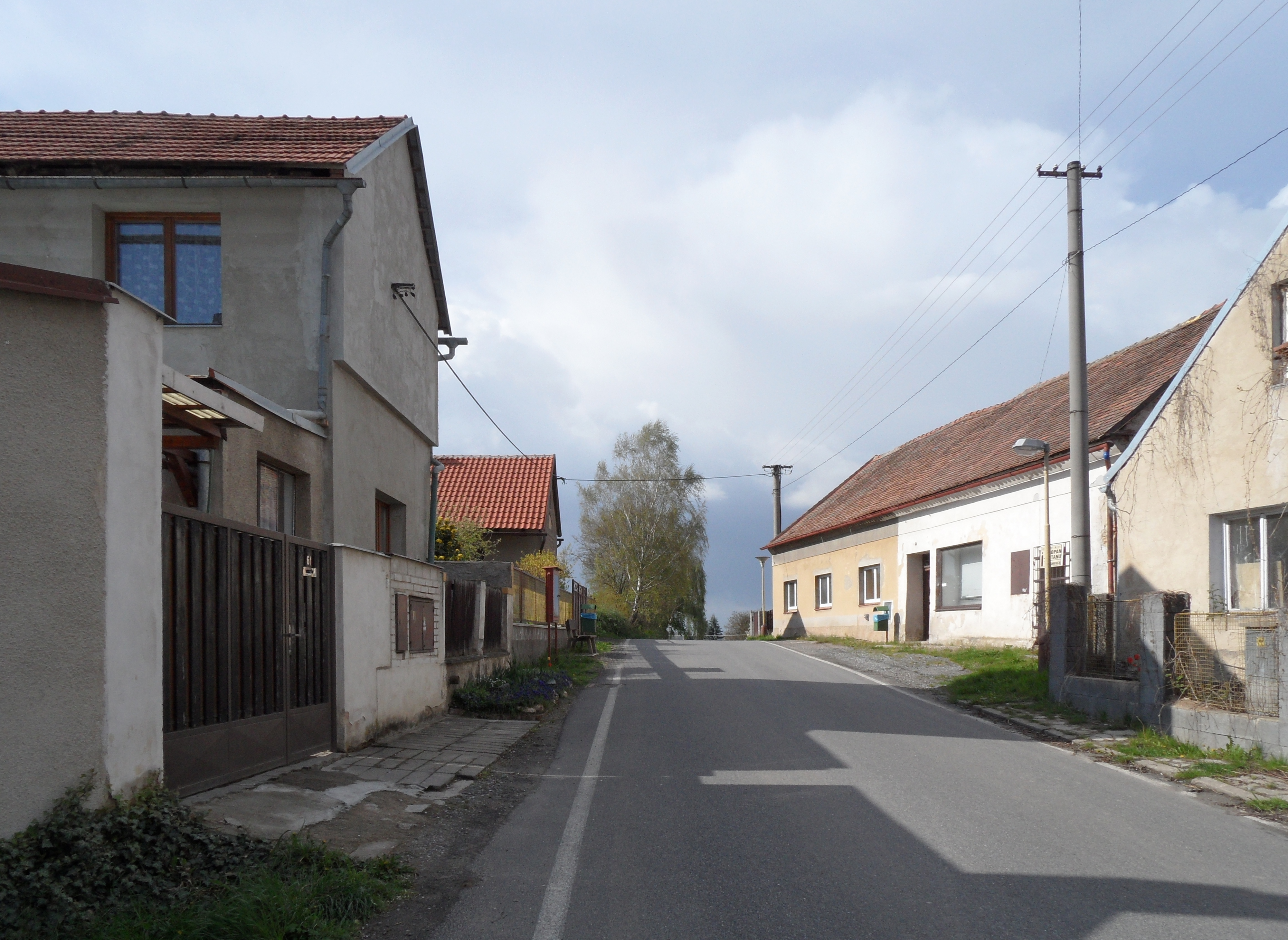 Cerhýnky D. Houses along Road to Dobřichov Kolín District, the Czech Republic.